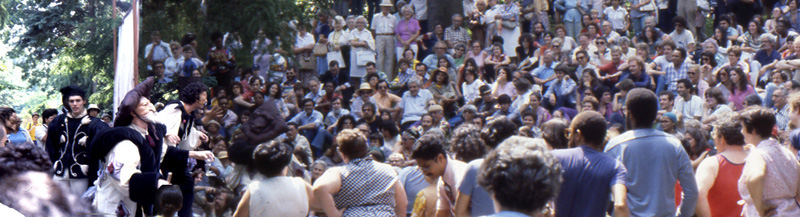 Photo of performance of The Mandrake by Riverside Shakespeare Company at Shakespeare Gardens, NYC, 1979.